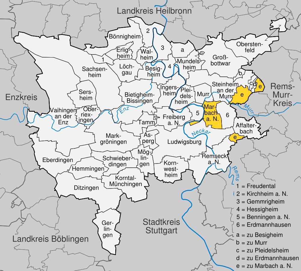 position of Marbach within distict of Ludwigsburg, Baden-Württemberg, Germany